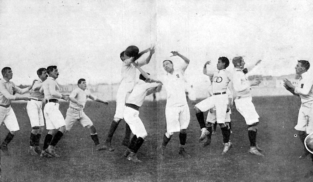 The first match ever between France and England national rugby teams.